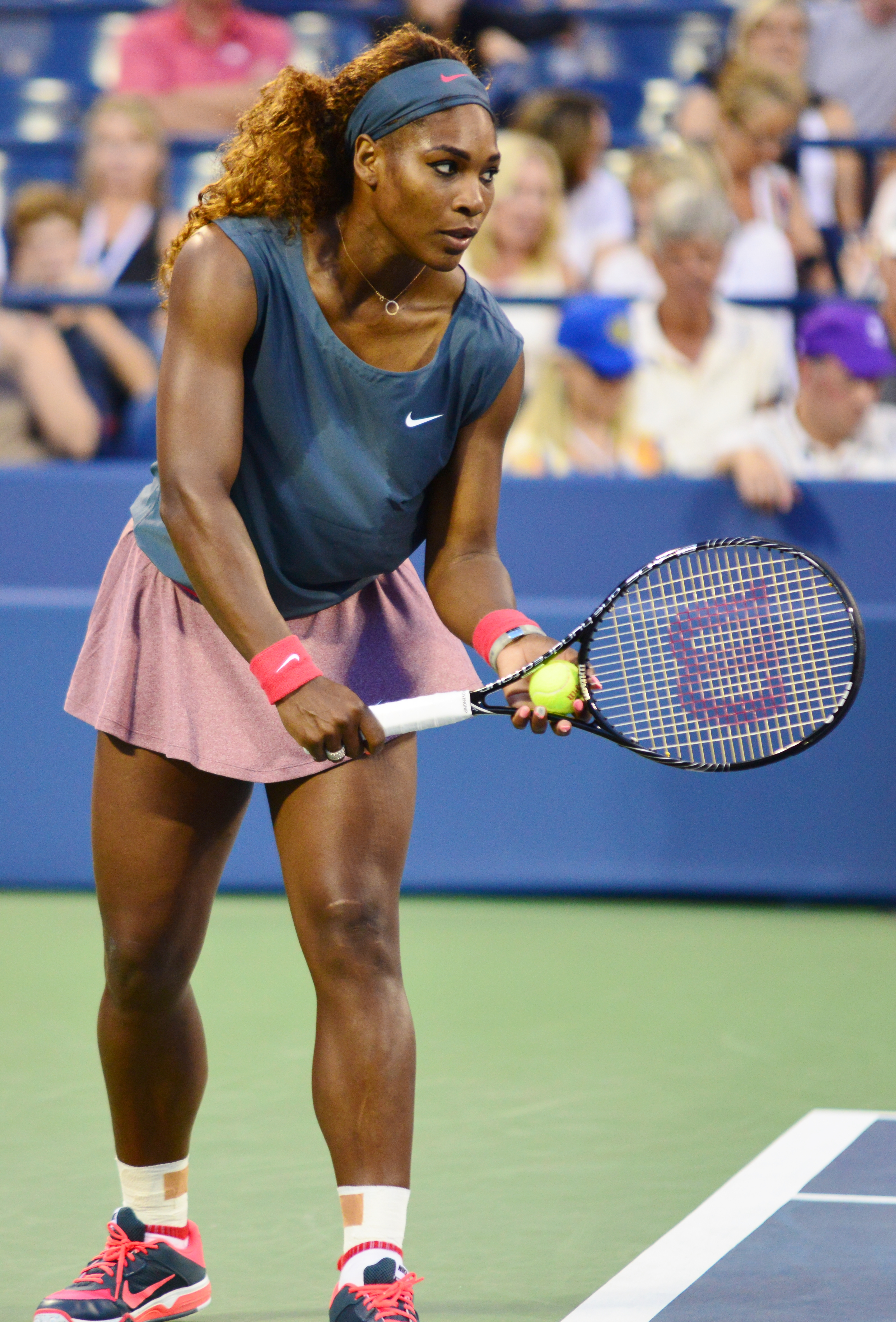 1st round doubles action from the Women's draw at the 2013 US Open. Serena and Venus Williams defeated Silvia Soler-Espinosa and Carla Suarez Navarro; 6-7(5), 6-0, 6-3